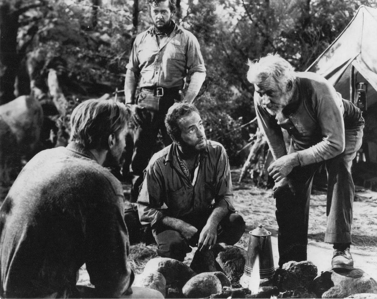 Humphrey Bogart and Walter Huston in American drama-adventure neo-western film The Treasure of the Sierra Madre (1948). See also film still. No copyright notice.